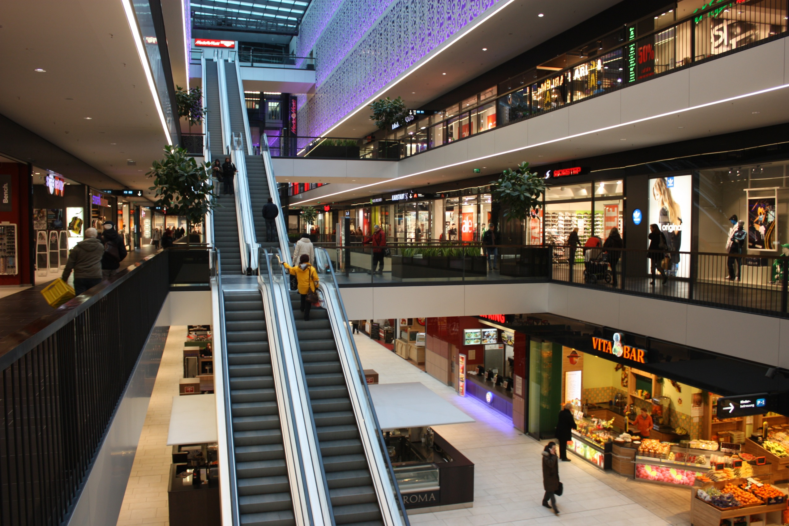 Dresden, the Centrum-Galerie on the Prager Straße